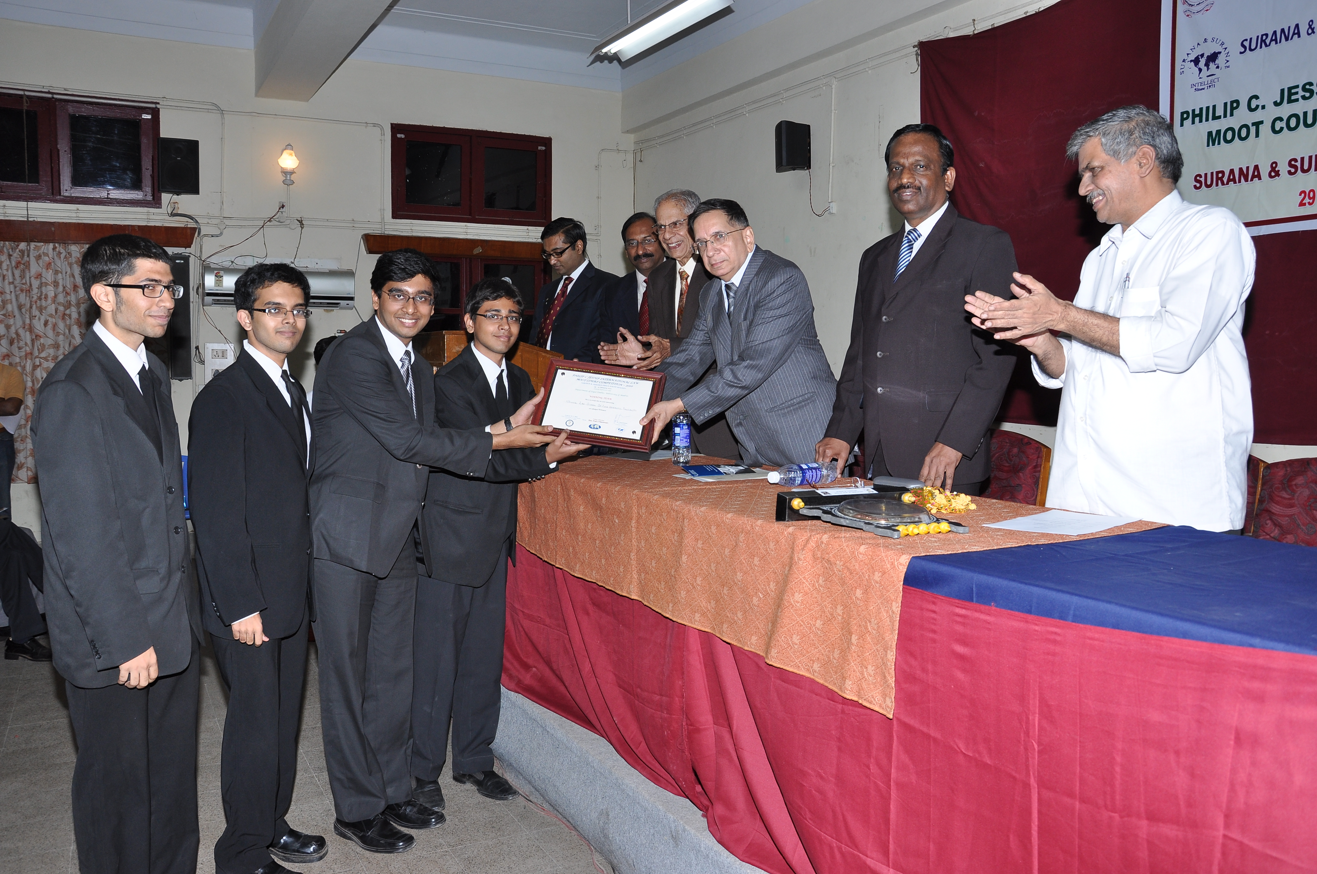 JS 2010 - NLSIU 1. Hon'ble Mr. Jusitice Hemant Laxman Gokhale, Chief Justice, Madras High Court 2. Hon'ble Col. Dr. G Thiruvasagam, Vice Chancellor, University of Madras 3. Shri R. Krishnamurthy, Former Advocate General of Tamil Nadu and Senior Advocate, Madras High Court 4. Dr. Balu, Dr. Vinod Surana, Managing Partner, Surana & Surana International Attorneys & Dr. David Ambrose